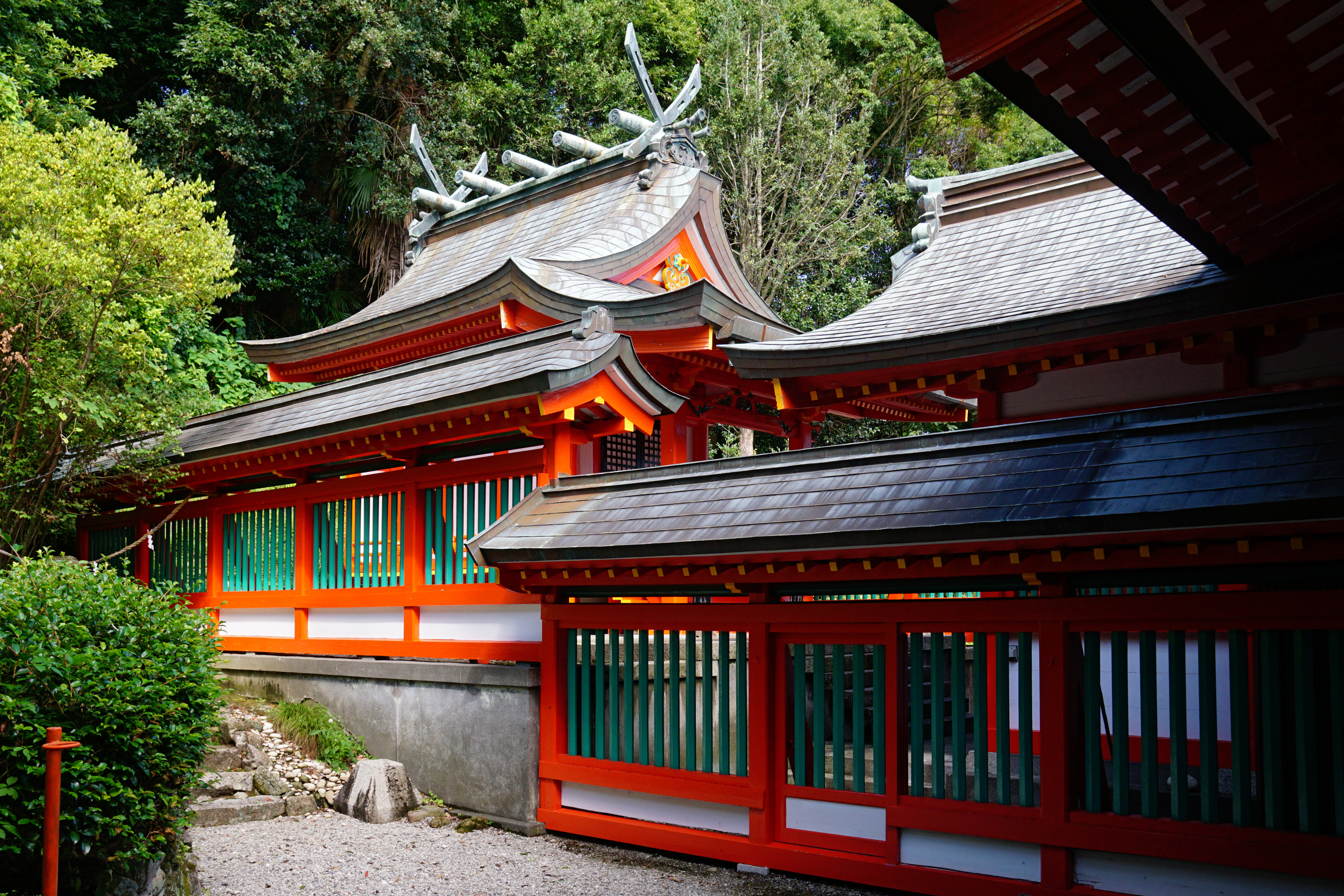 Asuka-jinja in Shingū, Wakayama prefecture, Japan